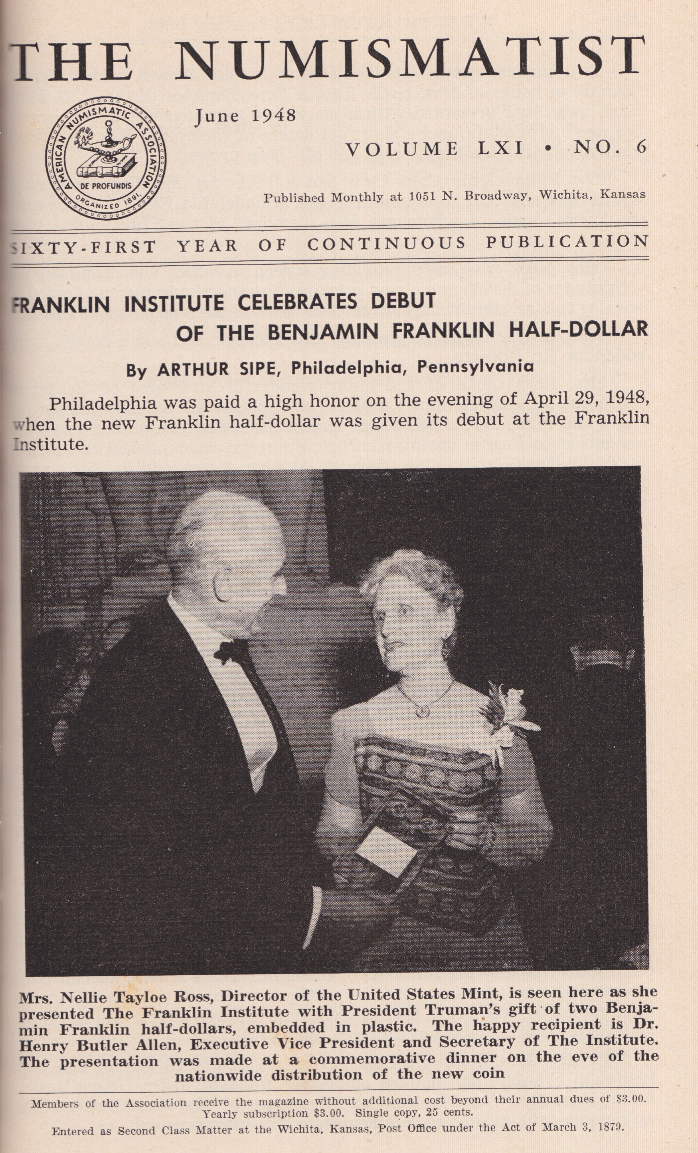 Front cover of The Numismatist, June 1948.